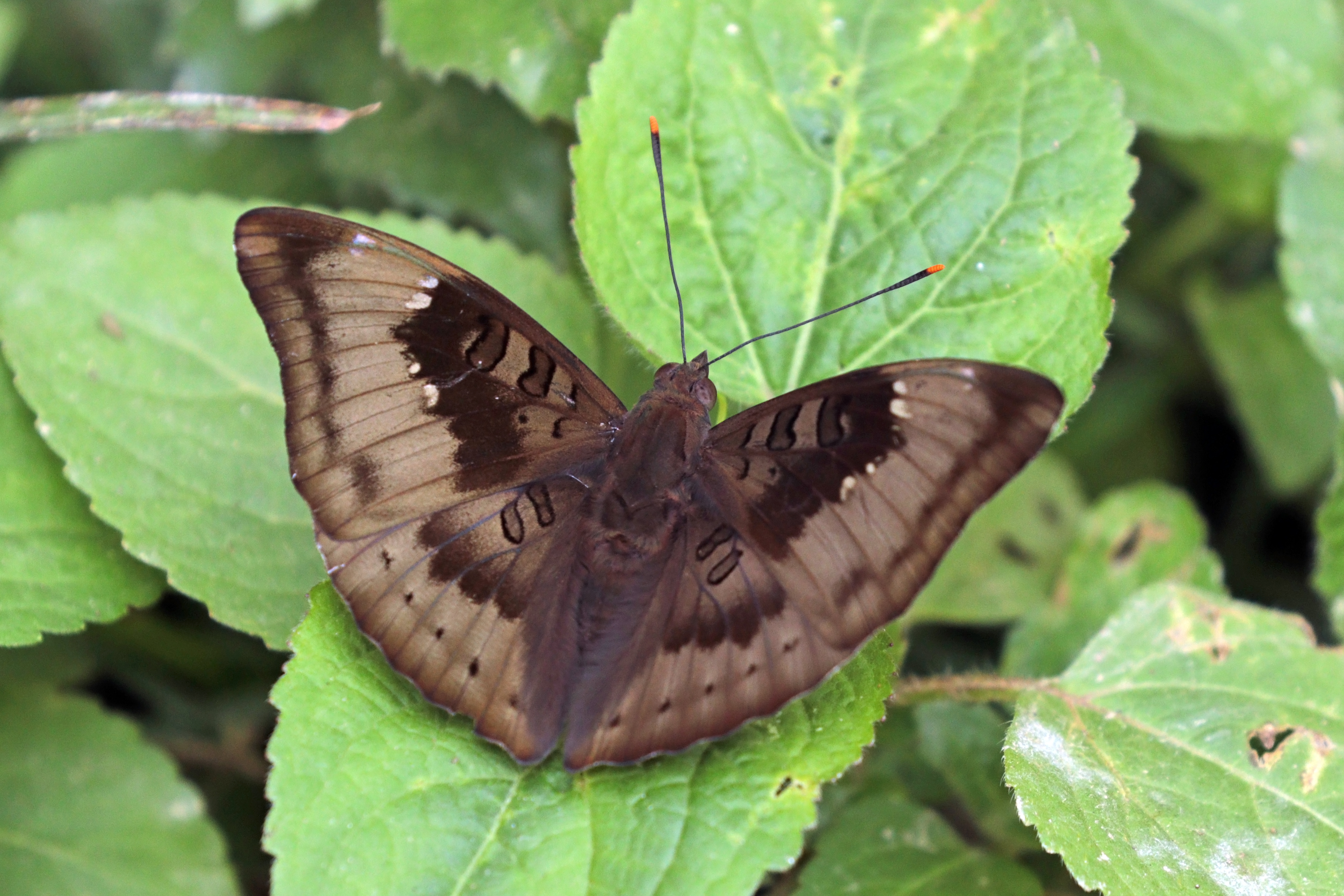 Common baron (Euthalia aconthea suddhodana) male, Bardia, Nepal